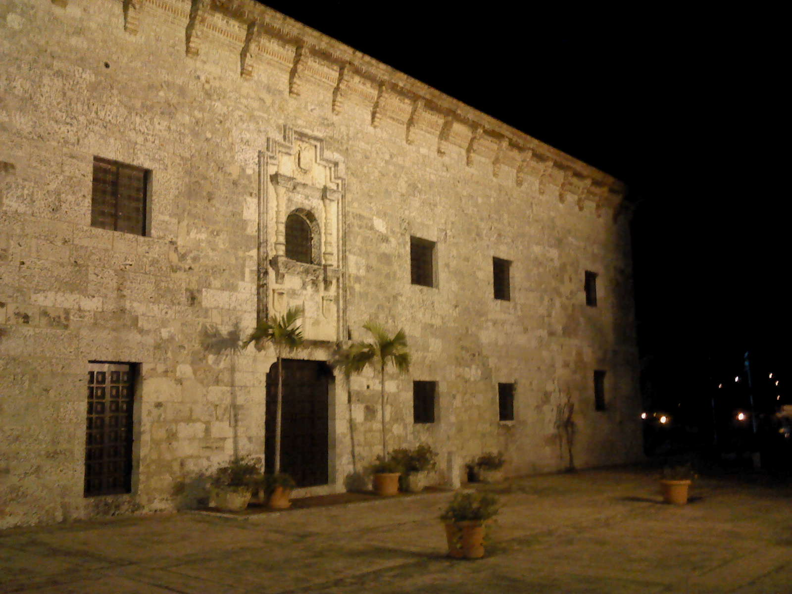 Santo Domingo